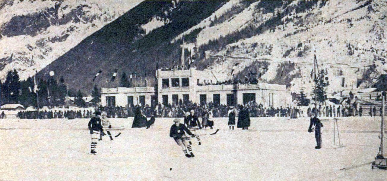 1924 Winter Olympics match between the United States and France. The United States won, 22-0